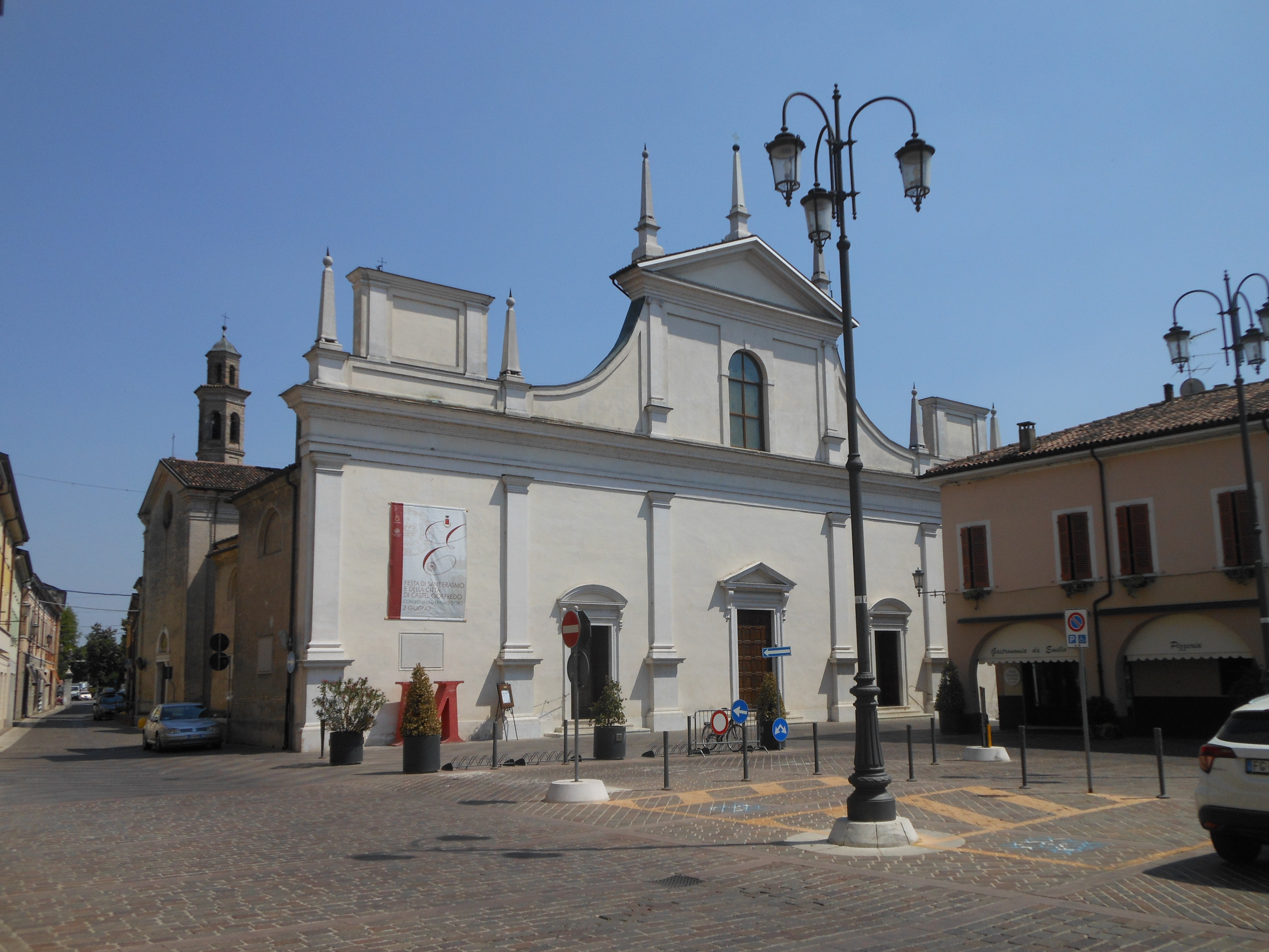 Chiesa S.Erasmo, facciata